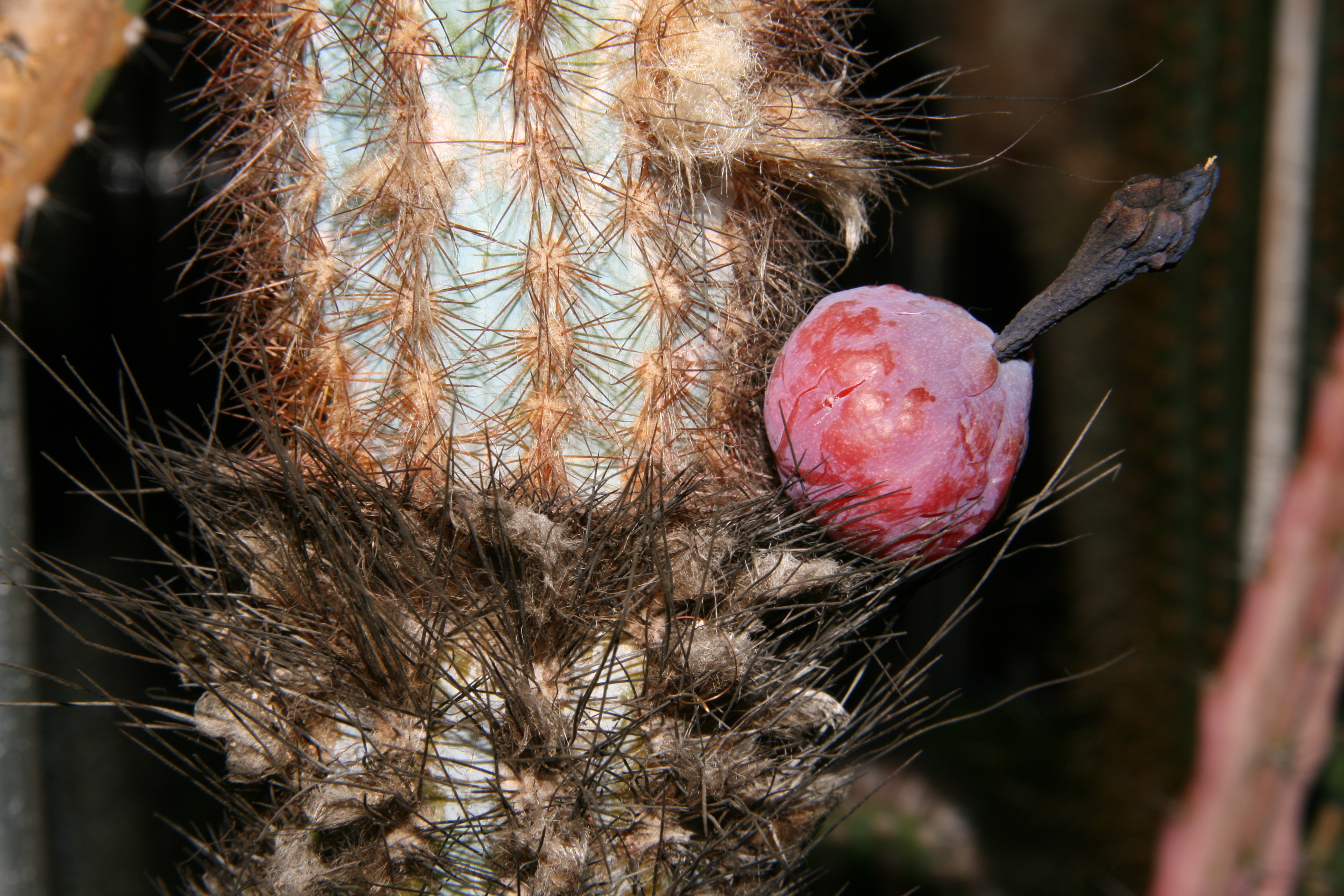 mature plant from holotype collection, Serra de Muquem, W Bahia, Brasil; typical circular pseudocephalium and fruit